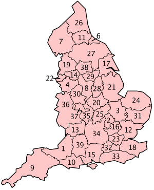 Numbered map of police force territories in the United Kingdom